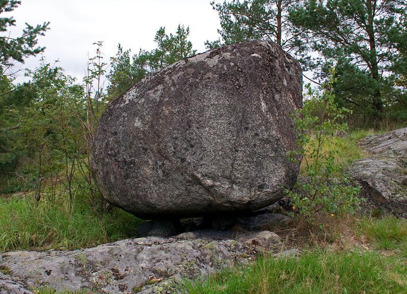 Uppallat block i Ulvsunda, Stockholm